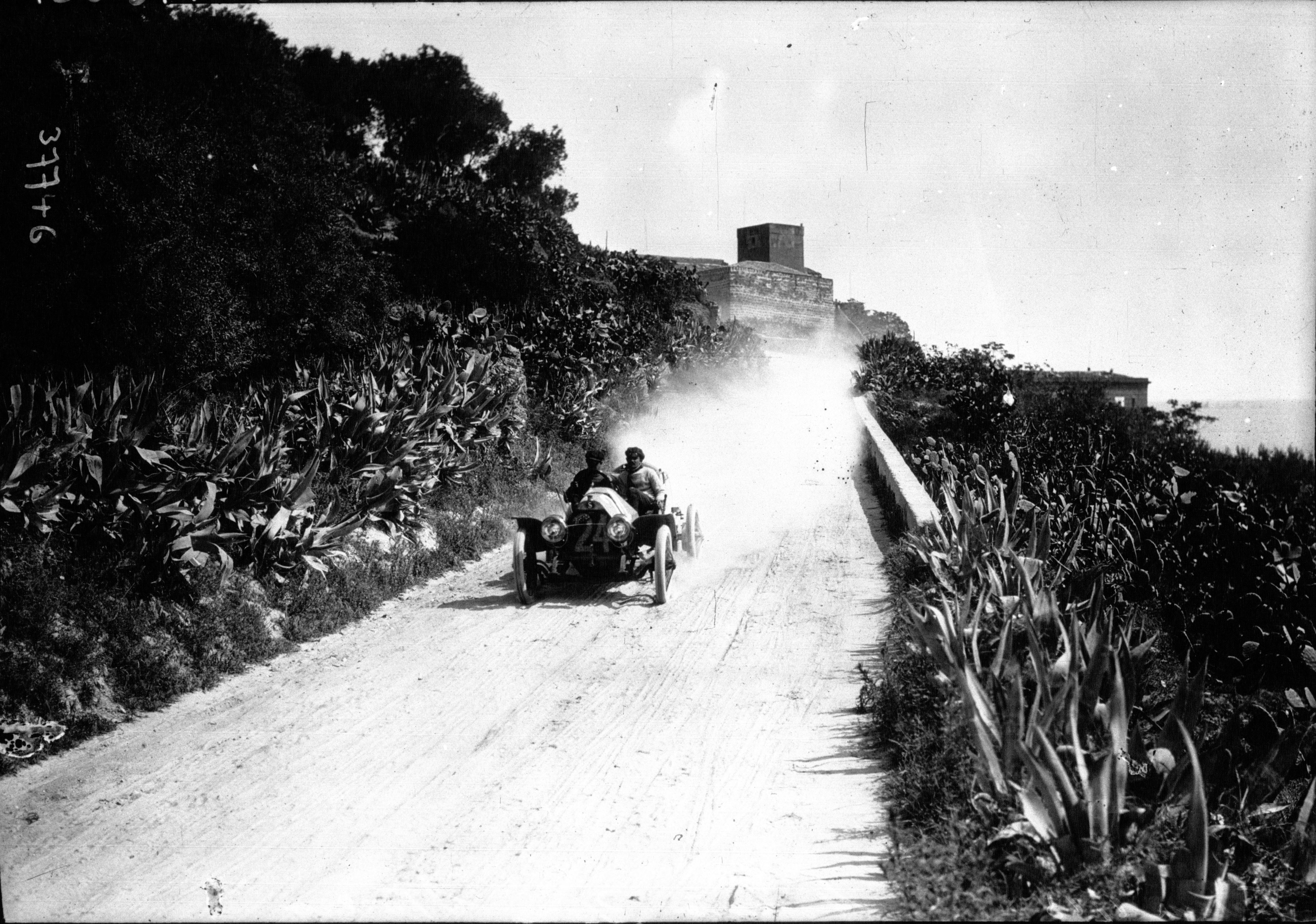 Ferdinando Minoia in his Storero at the 1913 Targa Florio.